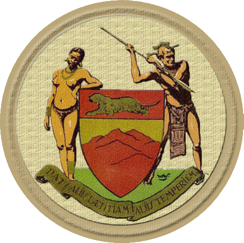 The crest of Dalat from 1930 to 1975.